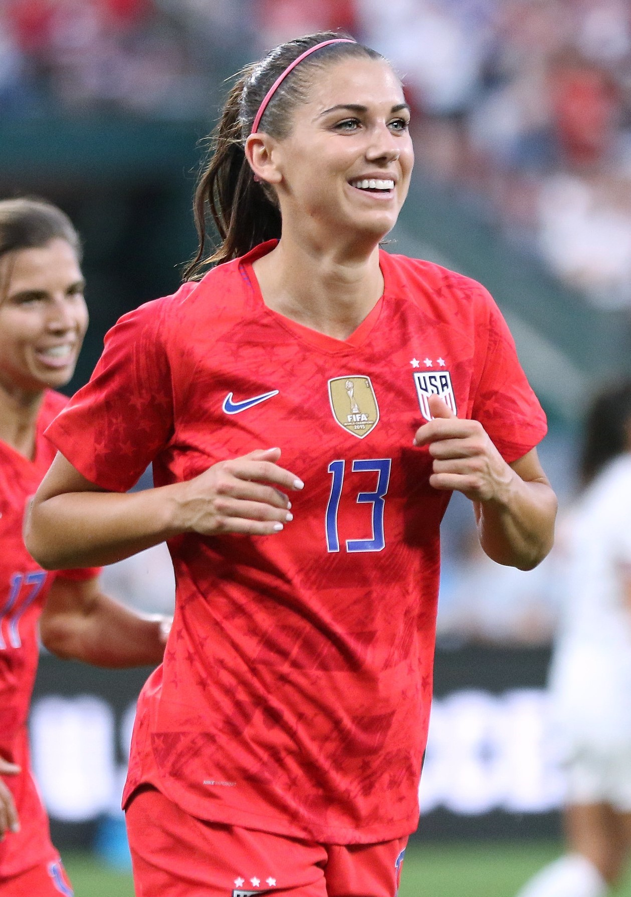 Alex Morgan during the USWNT friendly against New Zealand on May 16, 2019, in St. Louis.